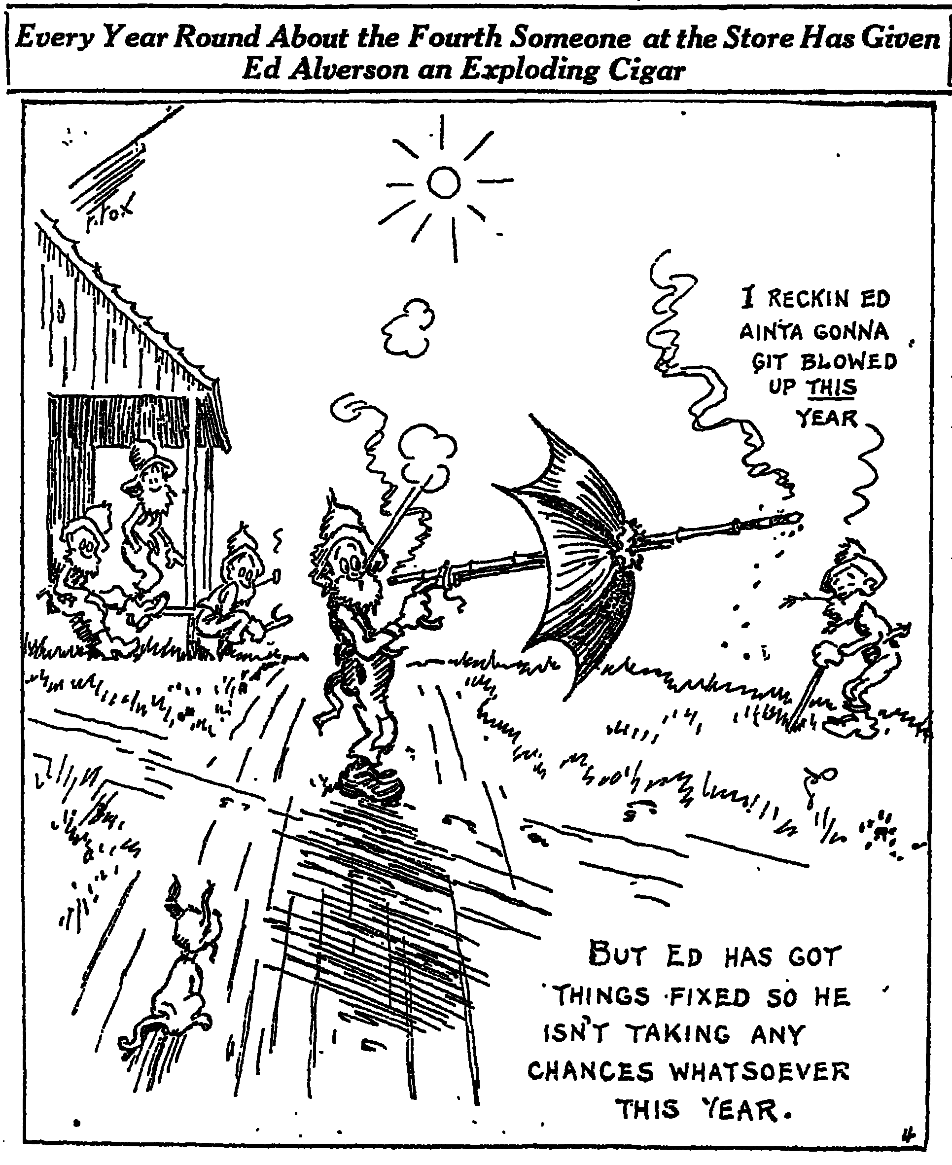 Newspaper comic panel by Fontaine Fox on the subject of exploding cigars